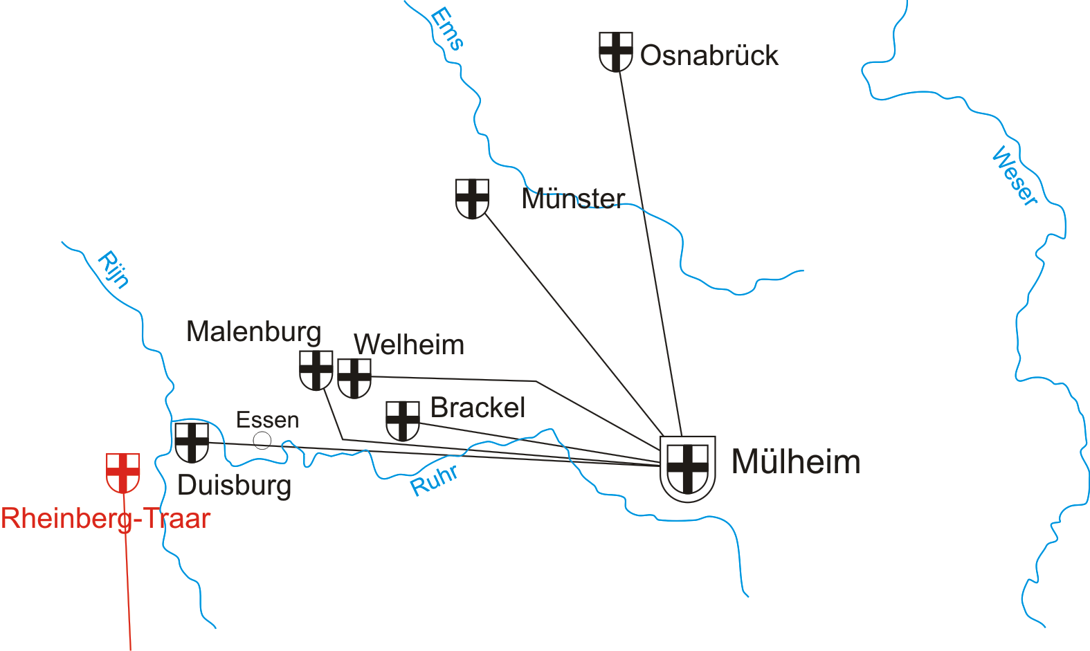 map of the bailiwick of Westfalia of the Teutonic Order